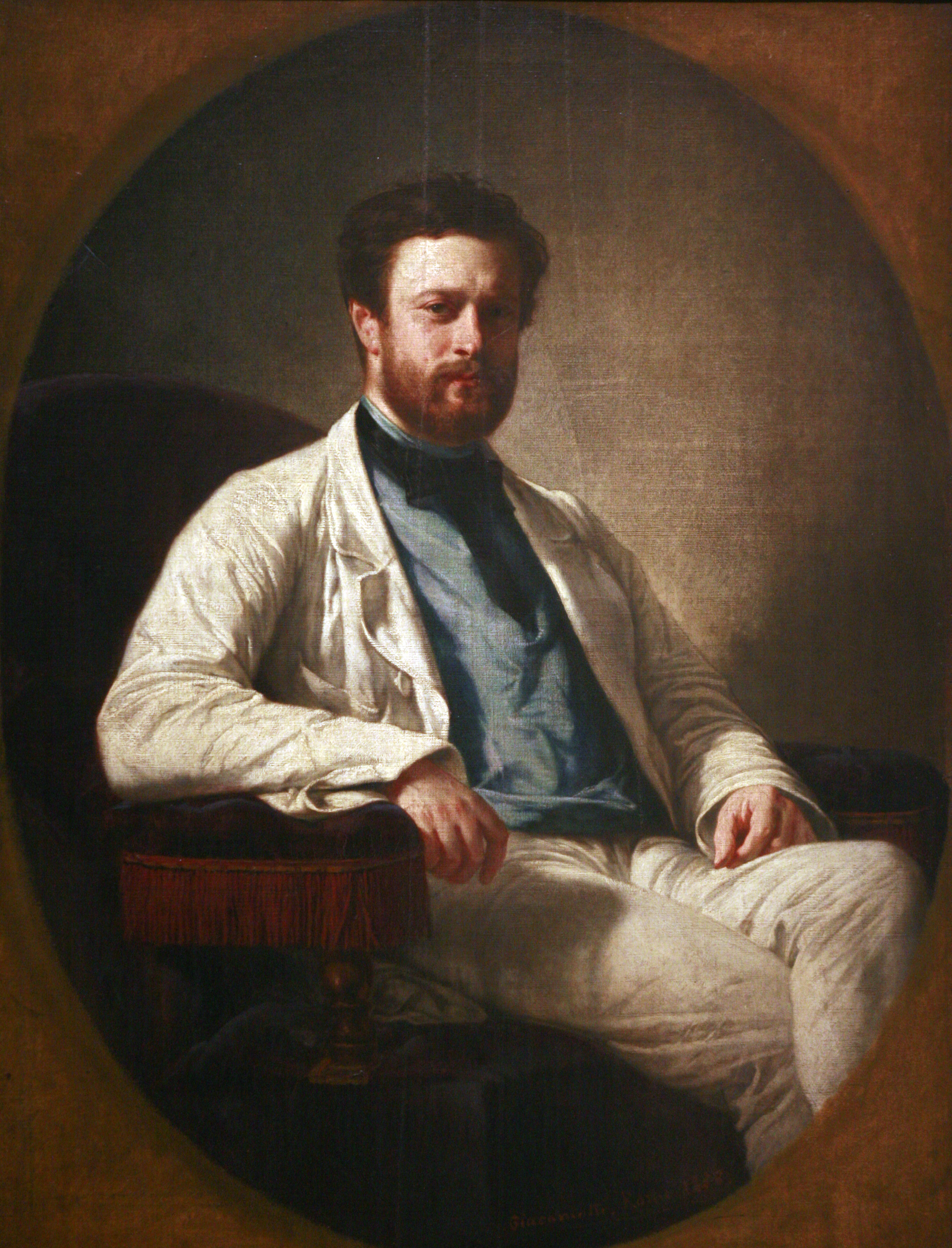 Portrait of Edmond About (1828-1885)